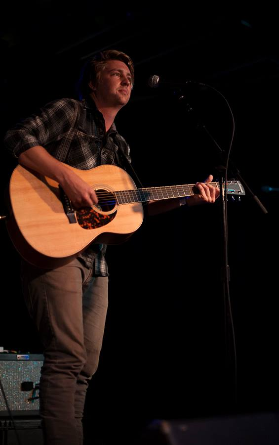 Tyson Motsenbocker on Stage.